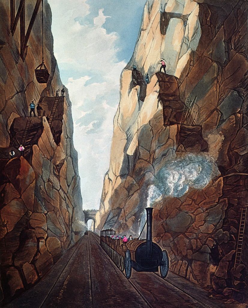 Excavation of the Olive Mount cutting on the Liverpool and Manchester Railway. The cutting was 20 ft (6.1 m) wide and 70 ft (21.3 m) deep. Construction required the removal of 480,000 cubic yards of sandstone. This was used to build the Roby embankment and the Sankey Viaduct. The cutting has since been widened, reducing somewhat its original visual drama.